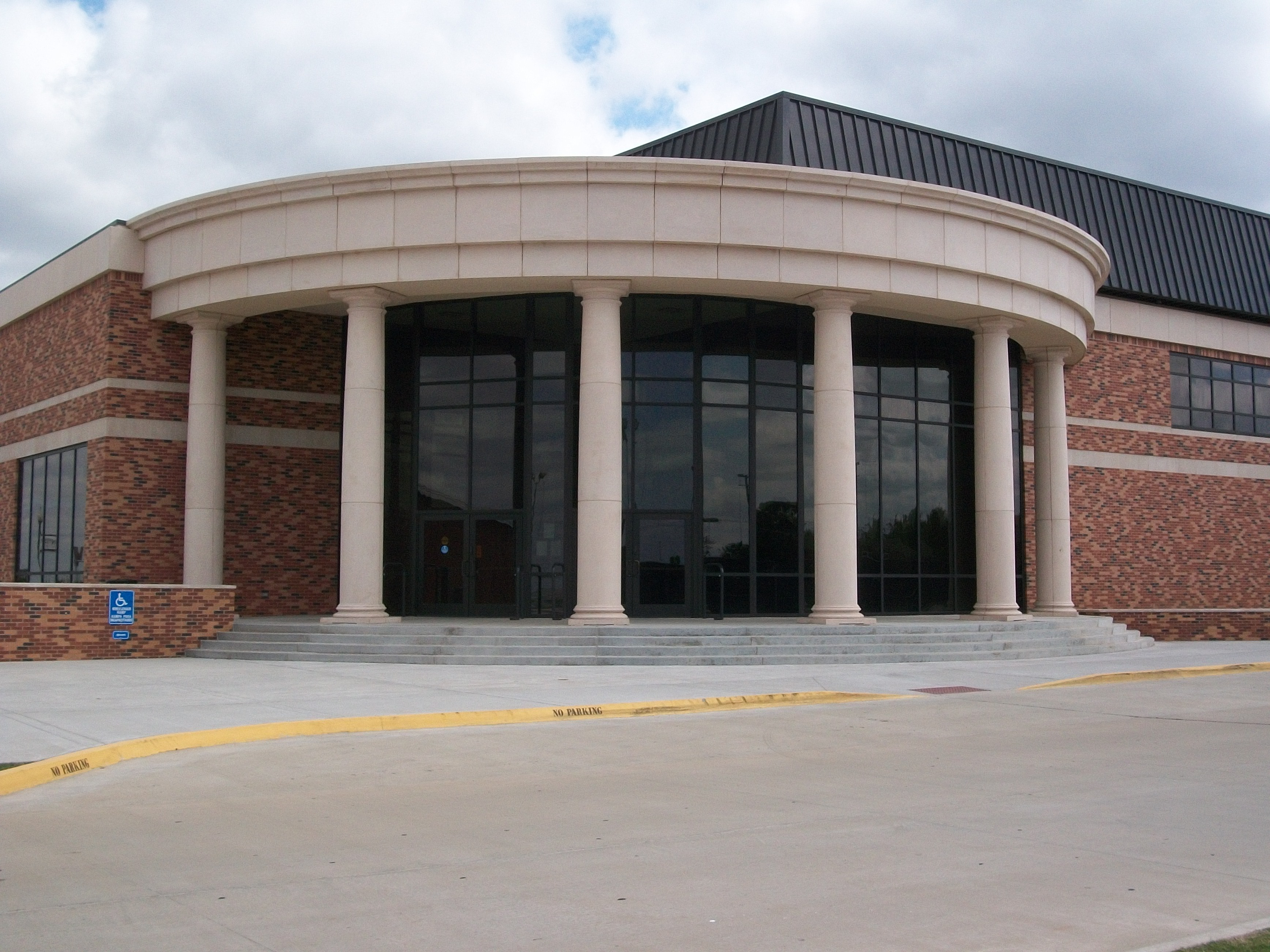 Building erected in 2007. Entrance faces south onto University Street.